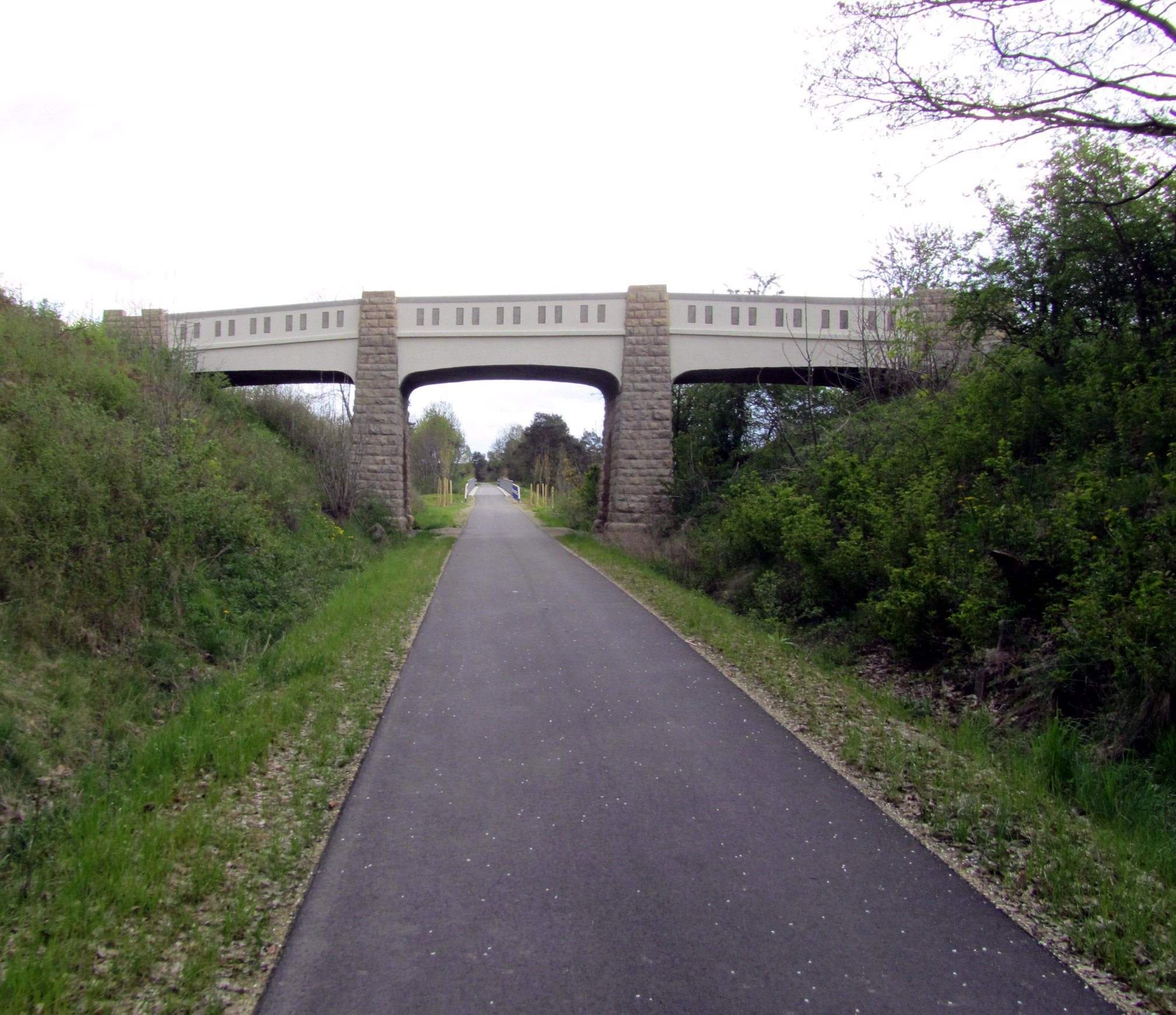 Germany / Hesse: Cycle Way "Ederseebahn-Radweg": typical bridge